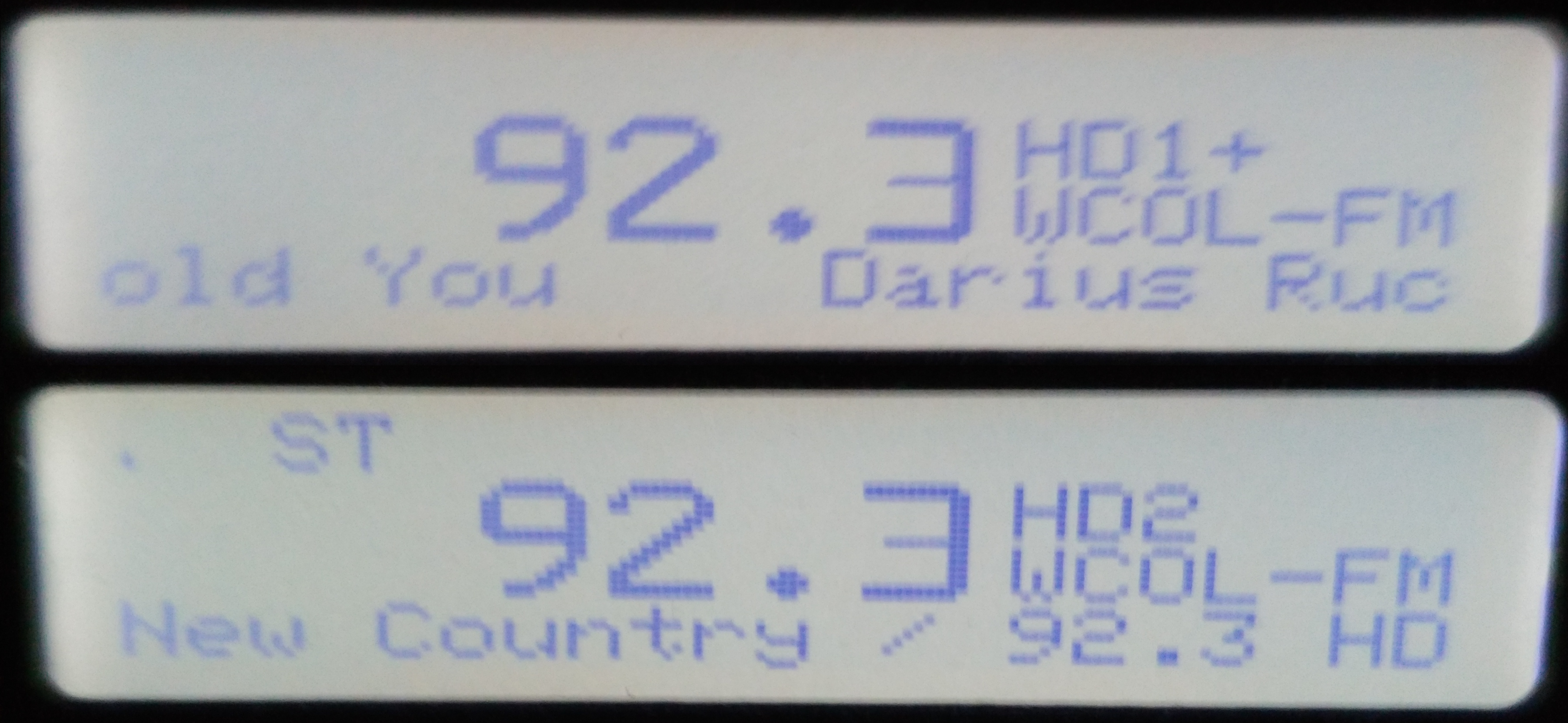 Picture Taken by User:Bbabybear02 off of a SPARC HD Radio